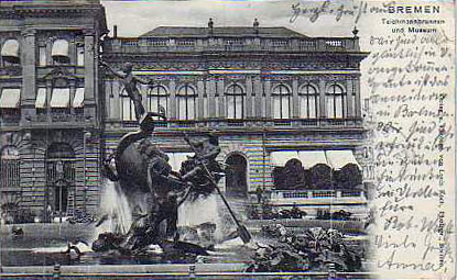 1903 - This museum in Bremen is now lost. On the site is an extention to the Deutsche Bank in Bremen Old images